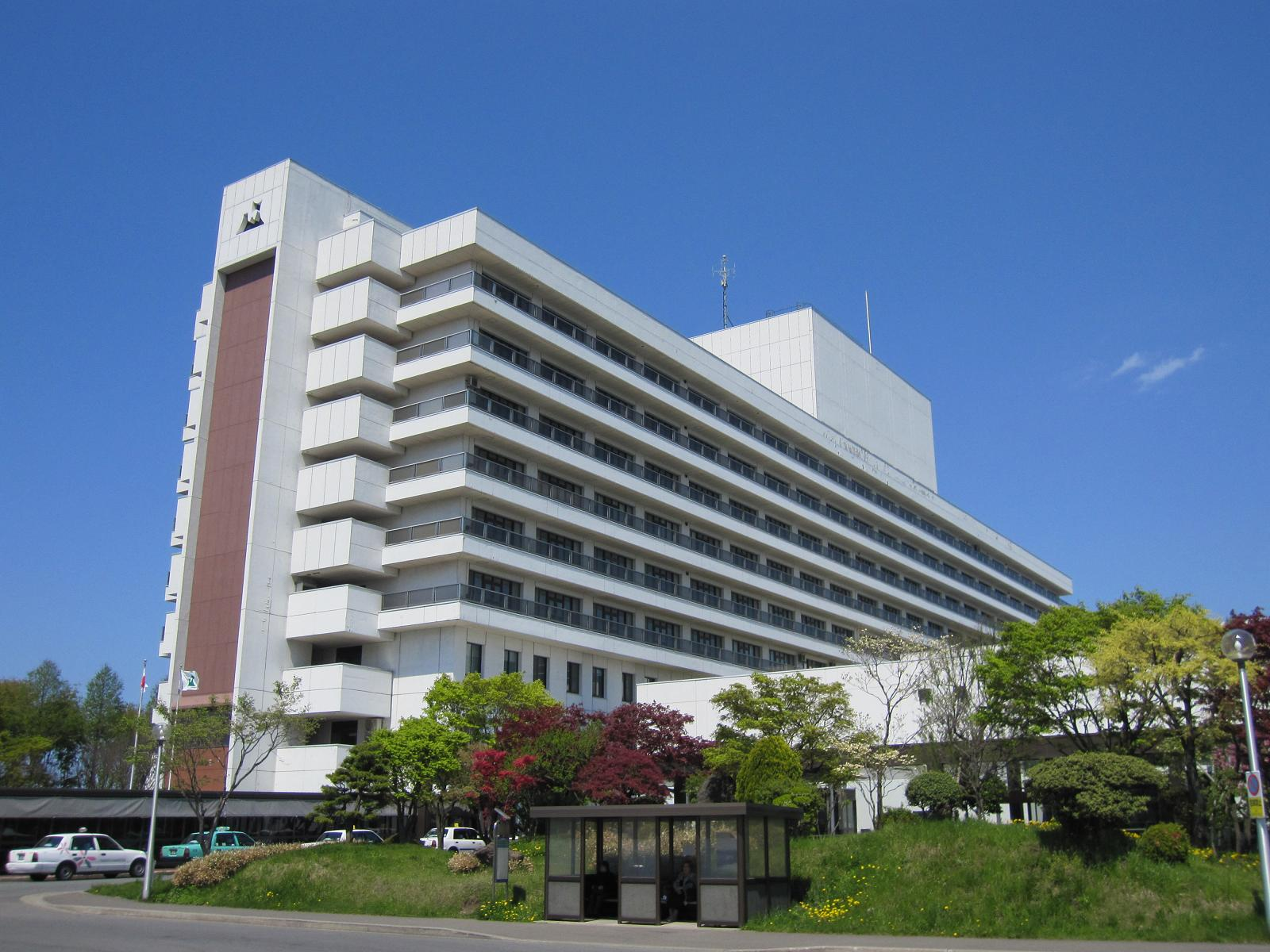 Aomori prefectual central hospital